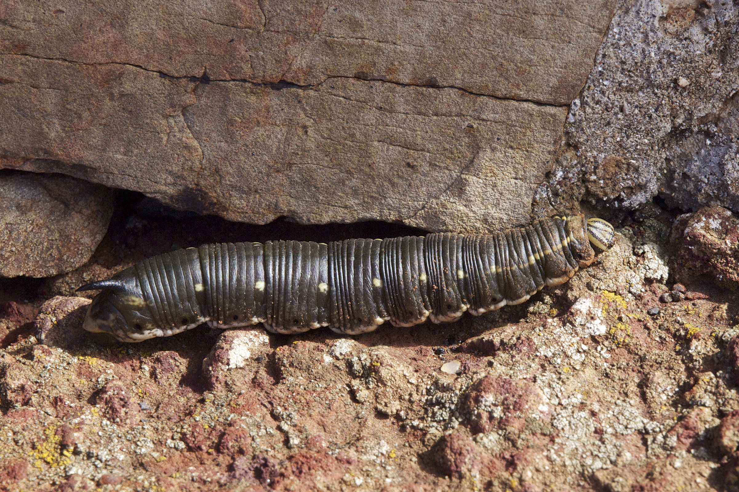 Convolvulus Hawk-moth (Agrius convolvuli) caterpillar, Madeira, Portugal